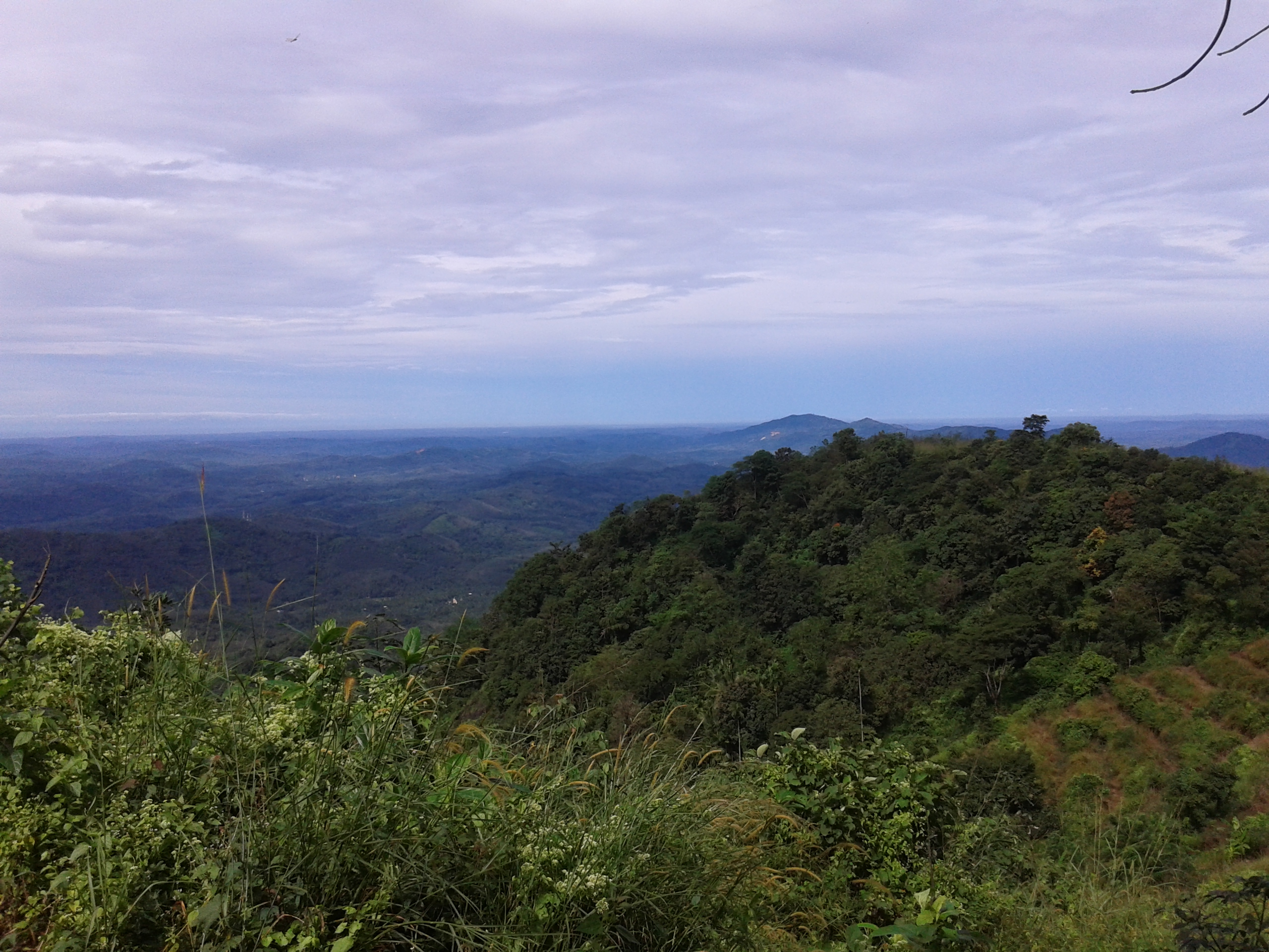 Elapeedika